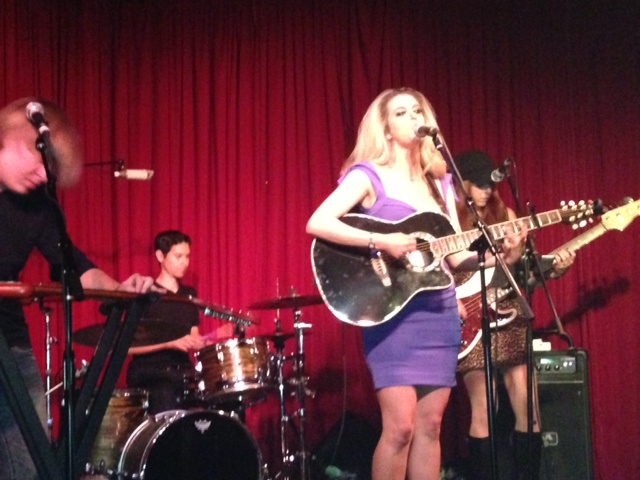 Ana Cristina performs at Hotel Cafe 9/16/2013